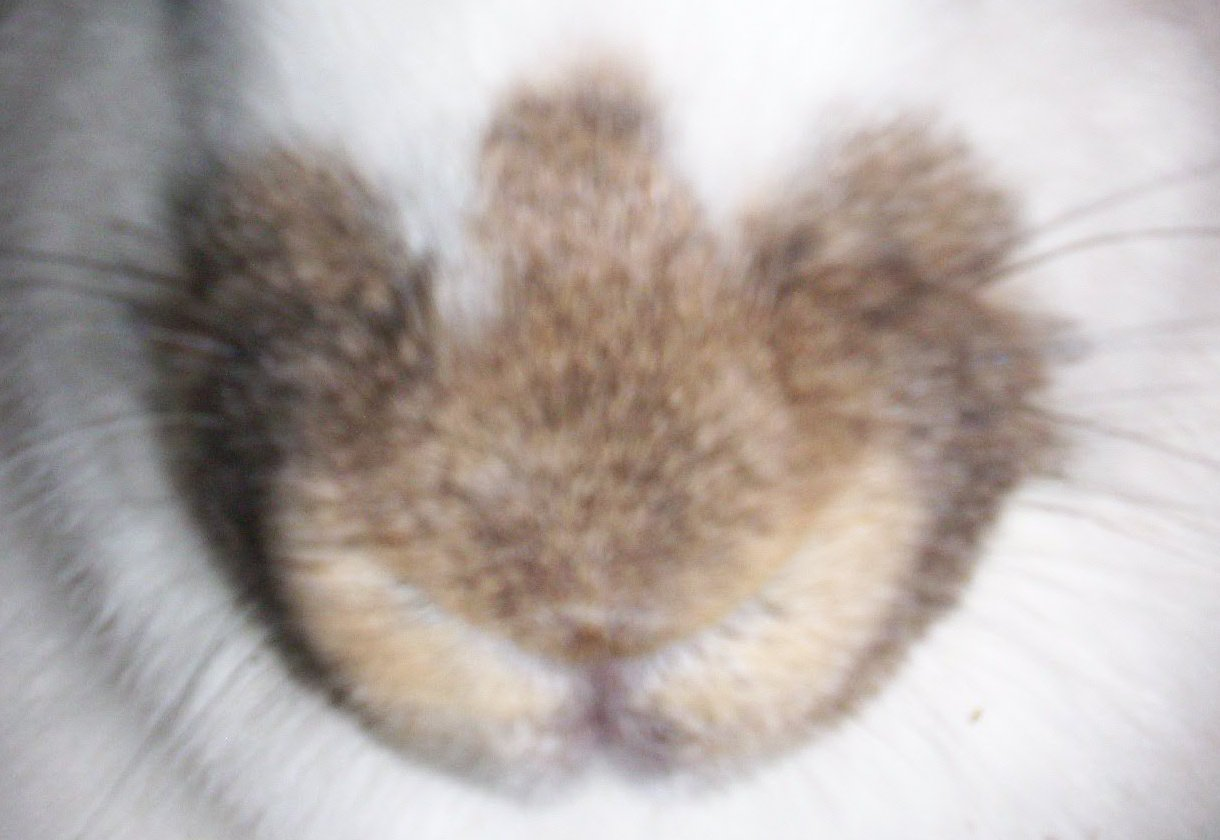 Typical mark on the nose of butterfly rabbits